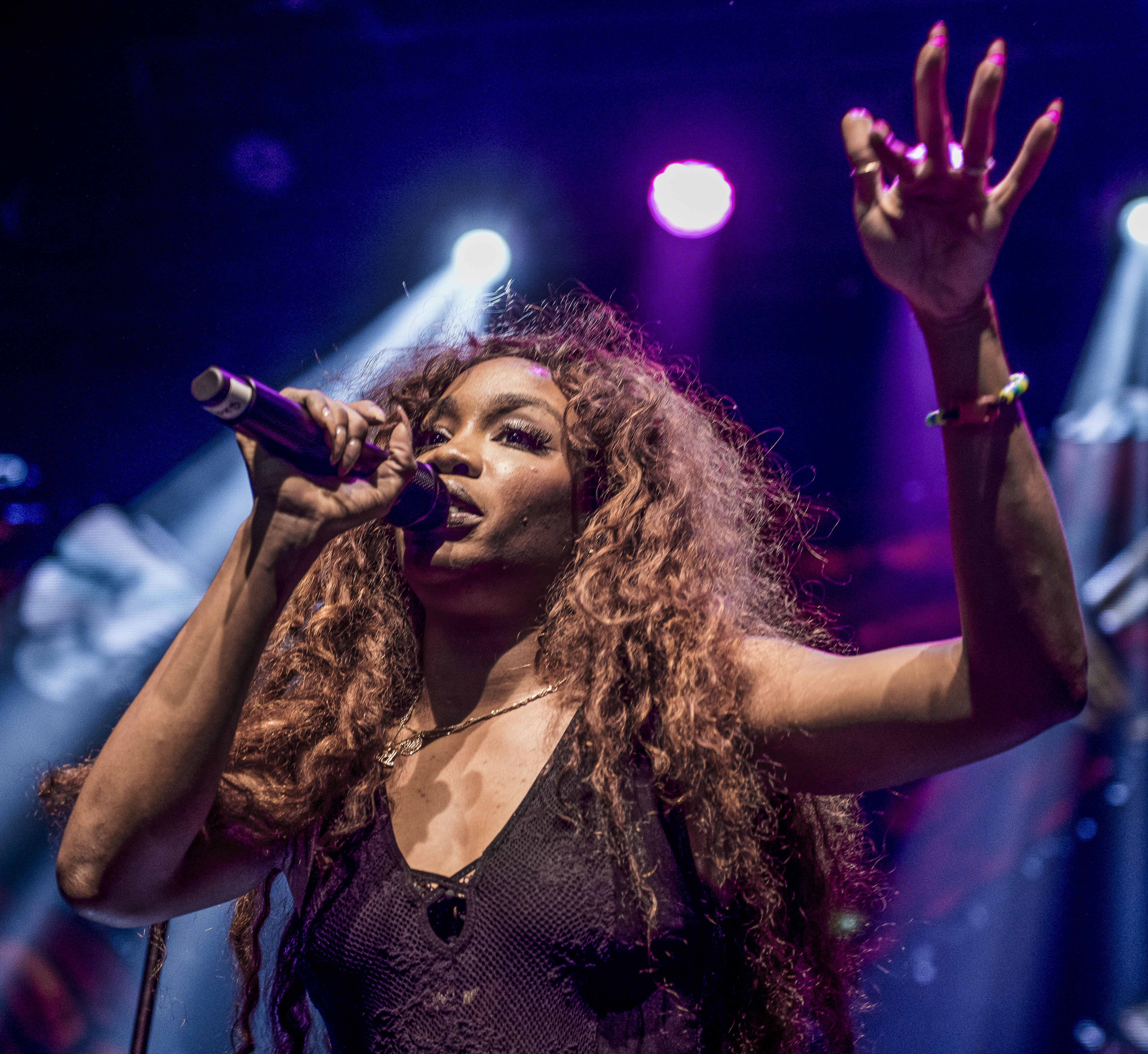 American R&B singer SZA performing at REBEL on August 23, 2017 in Toronto, Canada on Ctrl the Tour.